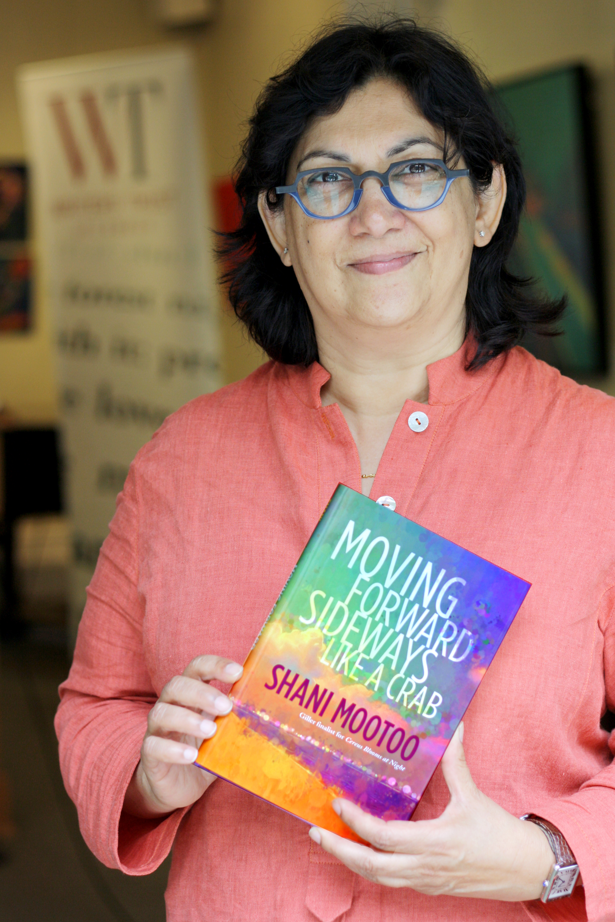 Photo taken at the Writers' Trust Author Series event in Toronto on October 15, 2014